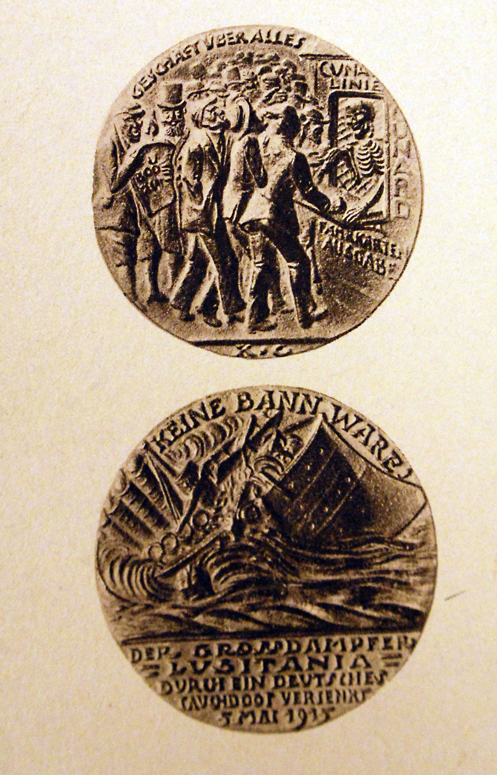 Lot-9212-30: WWI-German Activities. This medal was struck in Germany to commemorate the glorious exploit of the German Navy in deliberately sinking an unarmed passenger ship, the Lusitania, and taking the lives of 1,198 innocent passengers, men, women, and children. Courtesy of the Library of Congress. (2016/11/04).